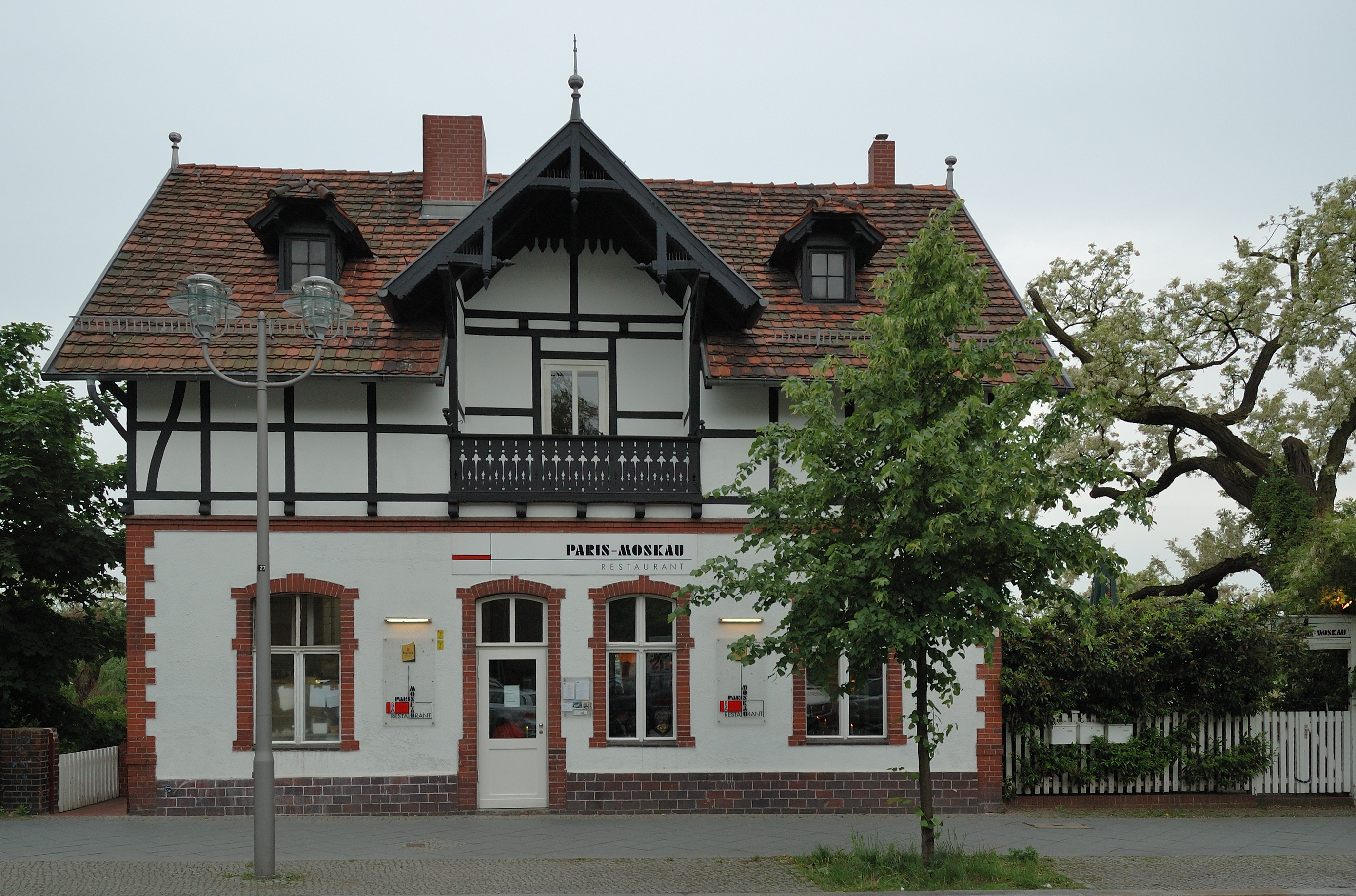 Restaurant "Paris-Moskau" in Berlin built in 1898.